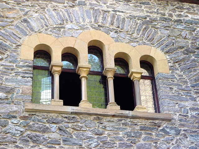 window of Burg Finstergrün